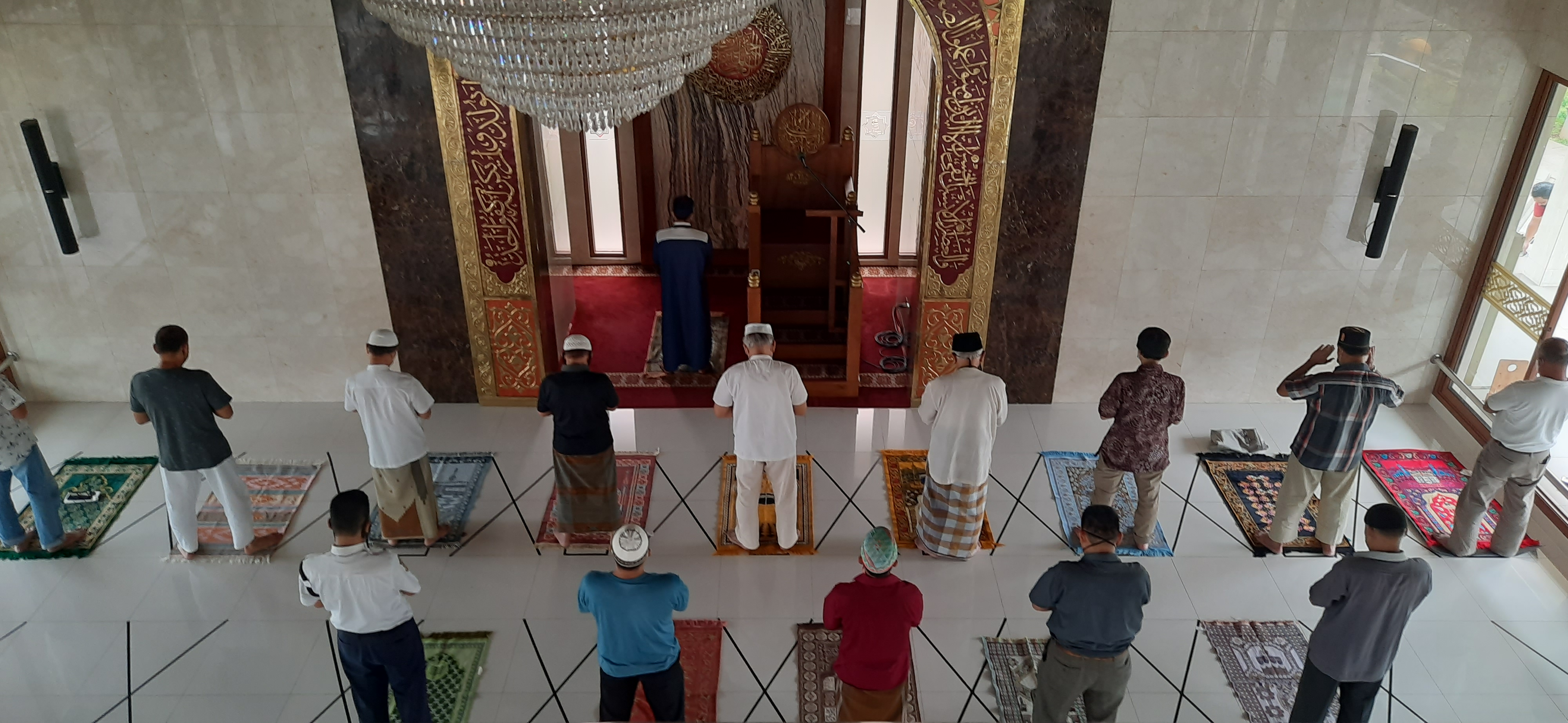 Islamic Prayer during the COVID-19 pandemic in Indonesia. Physical distancing imposed and mandatory for worshipers to wear face masks. The rug of the mosque is also removed and worshipers must bring their own personal rugs for prayer